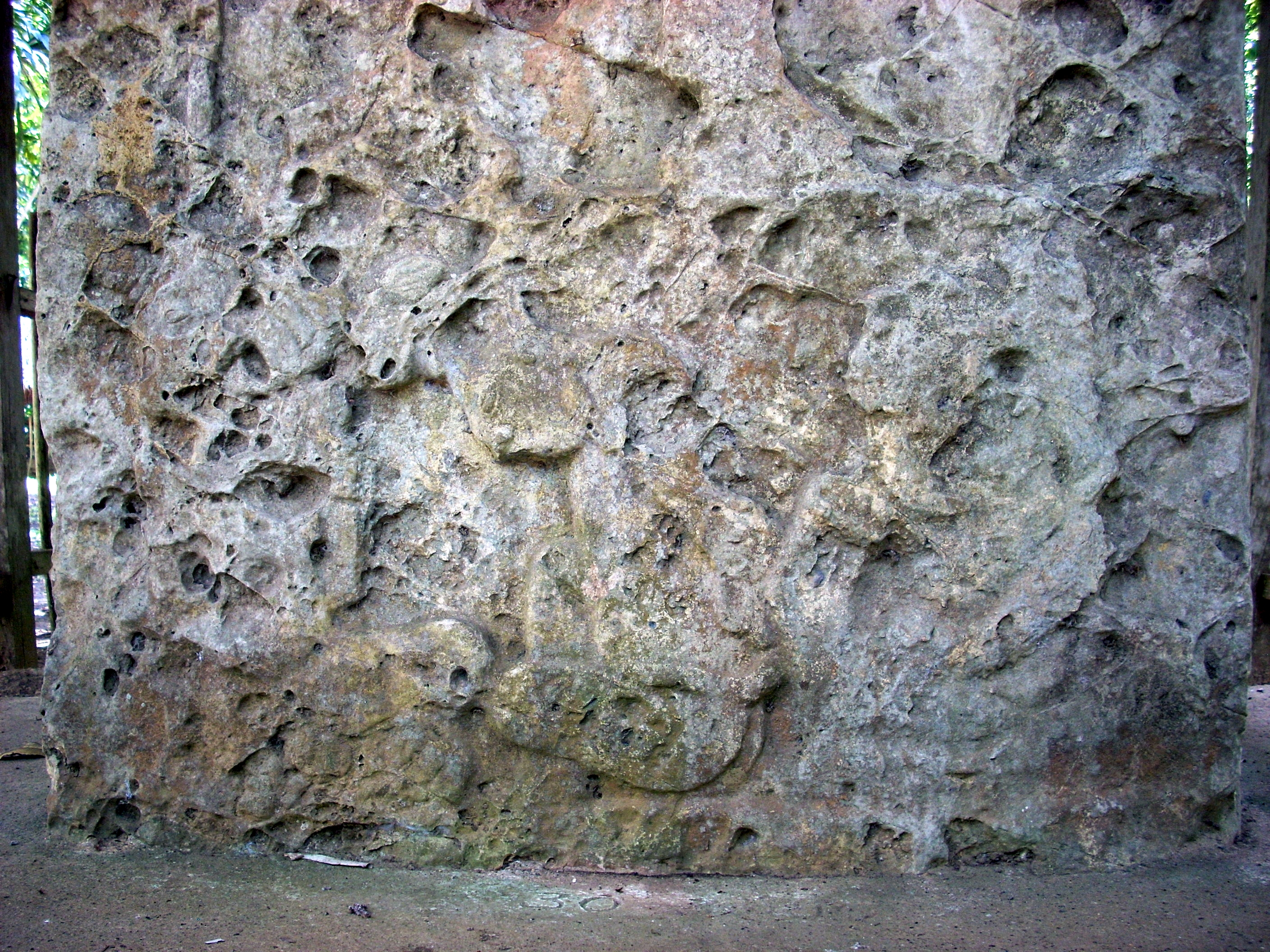 Stela 4 (front) detail showing badly eroded bound captive. El Chal, Peten, Guatemala.